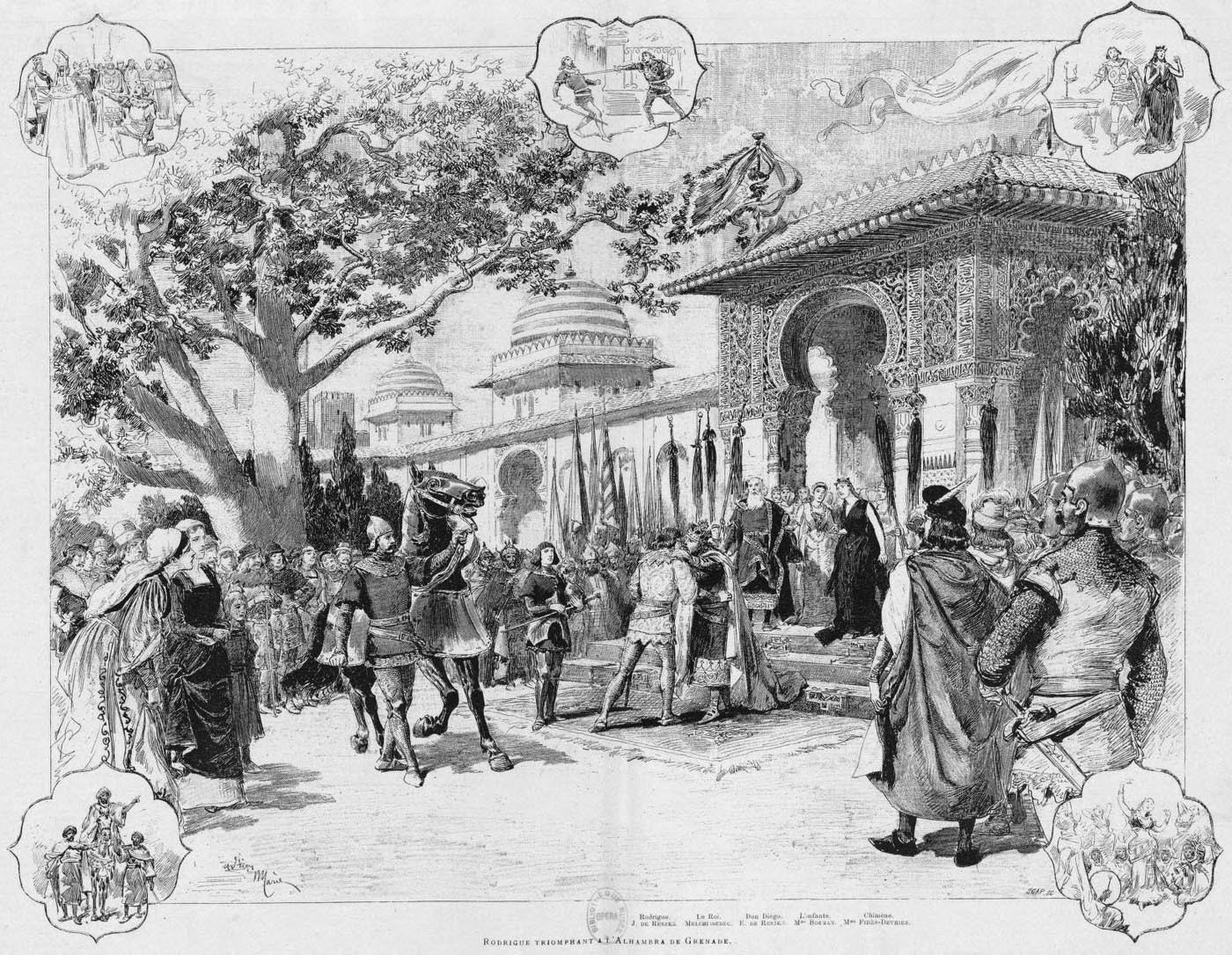 Massenet - Le Cid - 1885 - act 4, scene 10 - Rodrigue triomphant à l'Alhambra de Grenade médaillons: 1. Le serment de Rodrigue 2. Le duel entre Rodrigue et le comte de Gormas (M. Plançon) 3. Duo d'amour : Rodrigue et Chimène 4. L'entrée de l'envoyé des Maures 5. La danse mauresque par Mlle Keller